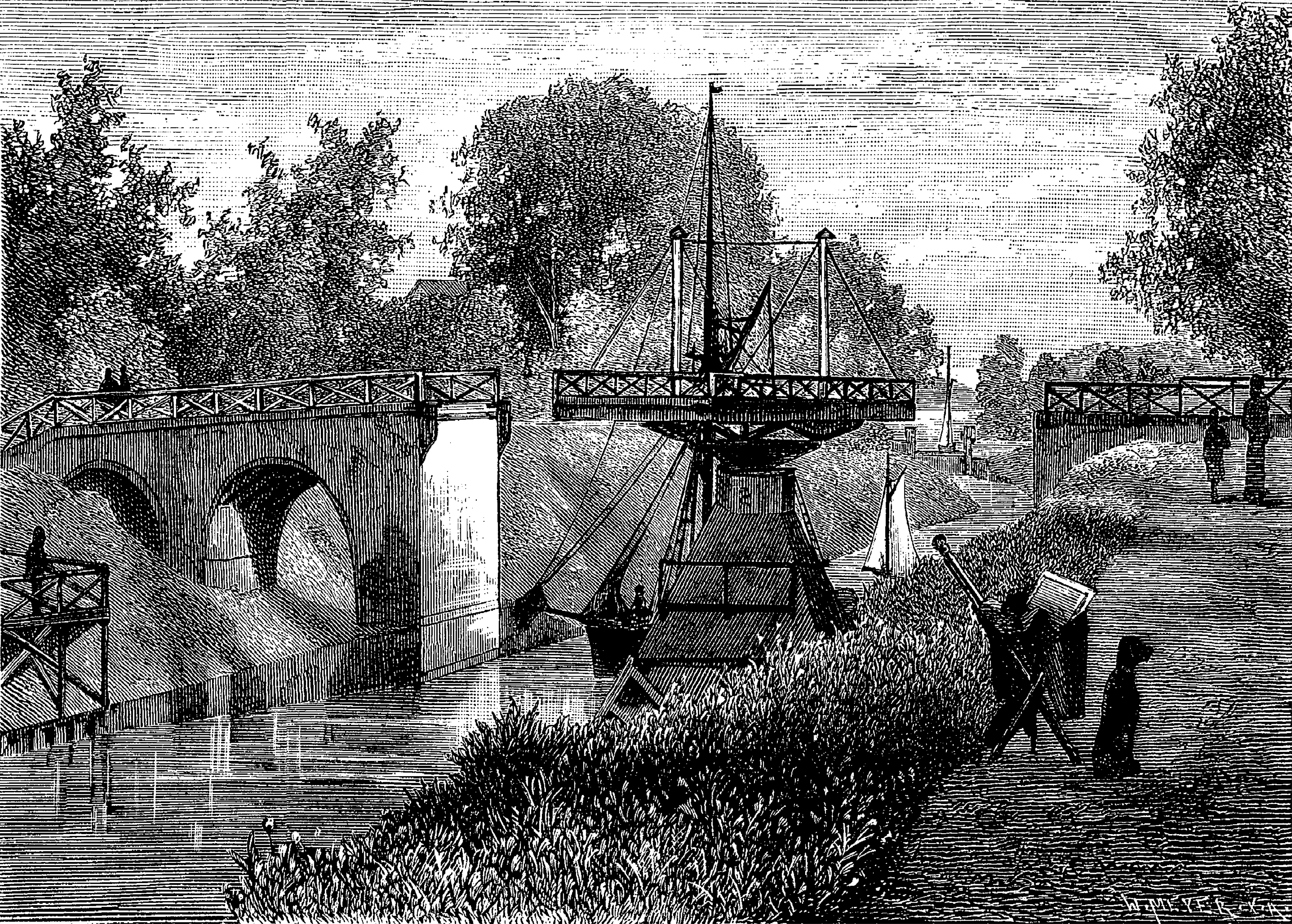 Svängbron öfver Södertelge kanal shows the old swing bridge across the canal in the city of Södertälje in Sweden. :Published in Svenska Familj-Journalen in 1881 :Artist: C.S Hallbäck